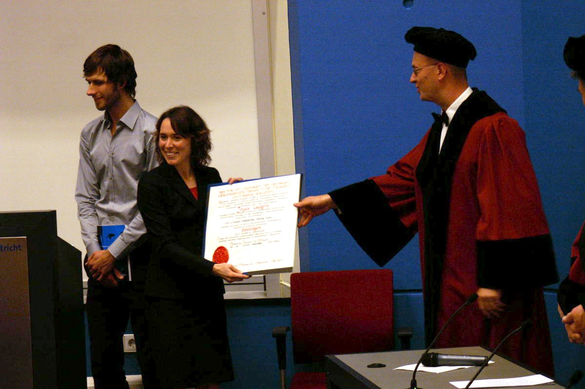 Receiving a Ph.D. diploma, after the laudatio by the promotor. Part of Ph.D. defense and ceremony at the Universiteit Maastricht (Maastricht University).